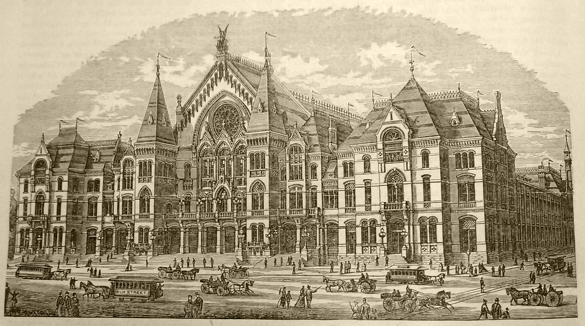 An engraving entitled "Music Hall and Exposition Buildings" from Cincinnati illustrated by Kenny, D. J., Cincinnati, O., Robert Clarke & co., 1879.